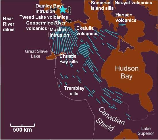 Map of the Mackenzie Large Igneous Province and location of associated volcanic zones.